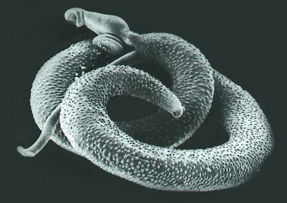 Schistosoma mansoni, adult. SEM [Scanning electron microscopy] of worm. Scanning electron microscopy. Unstained. [Gross specimen.] ; InfDis; 11/09/1994 ; MIS 94-5835-1